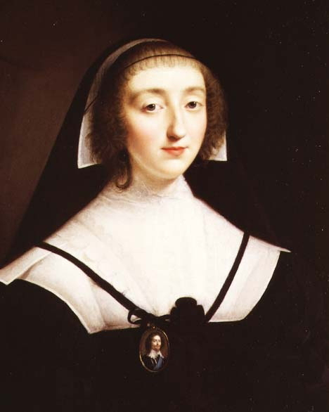 Katherine or Catherine Mannners, Baroness de Ros and Duchess of Buckingham, as a widow, wearing a portrait miniature of her murdered husband George Villiers, Duke of Buckingham.